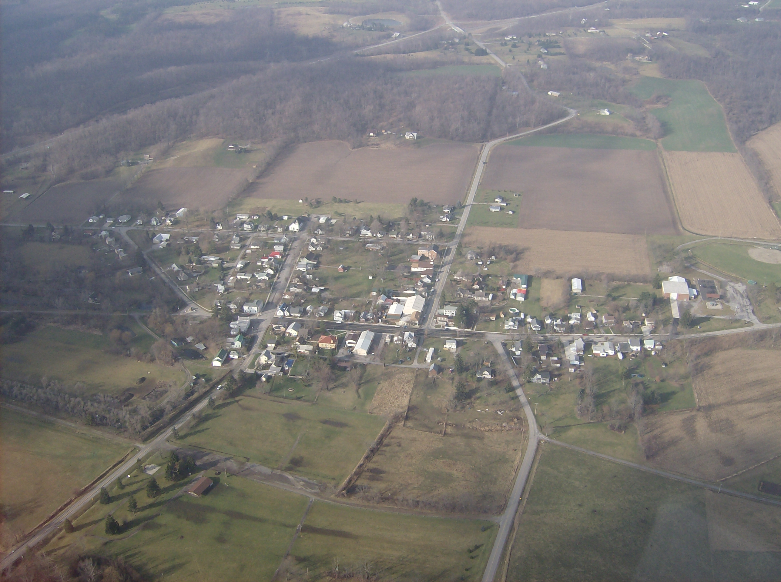 Aerial view of Zanesfield, Ohio, United States, taken from Diamond Eclipse light airplane. Picture taken from an altitude of 2,500 feet MSL at an bearing of approximately 272º.